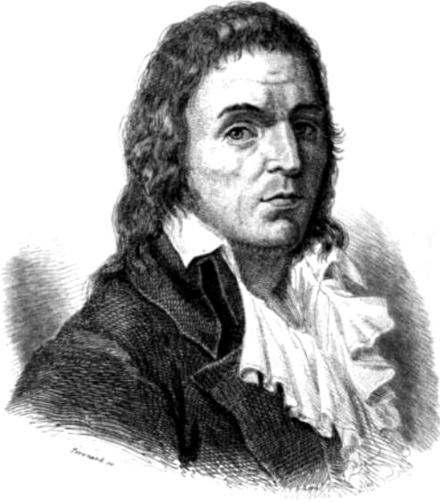 Gracchus Babeuf (1760-1797), French Revolutionist.